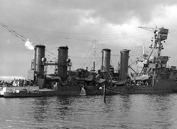 The U.S. Navy light cruiser USS Raleigh (CL-7) is kept afloat by a barge lashed alongside at Pearl Harbor, Hawaii (USA), 12 December 1941. The barge has the salvage pontoons YSP-14 and YSP-13 on board. Raleigh was was damaged by a Japanese torpedo and a bomb on 7 December 1941.